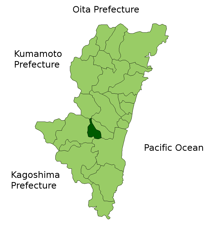 Location Map of Aya in Miyazaki Prefecture, Japan